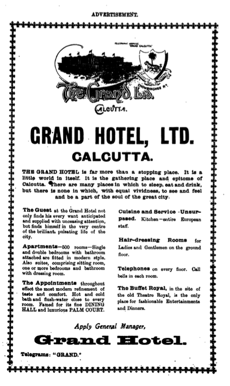 Old advertisement of Grand Hotel